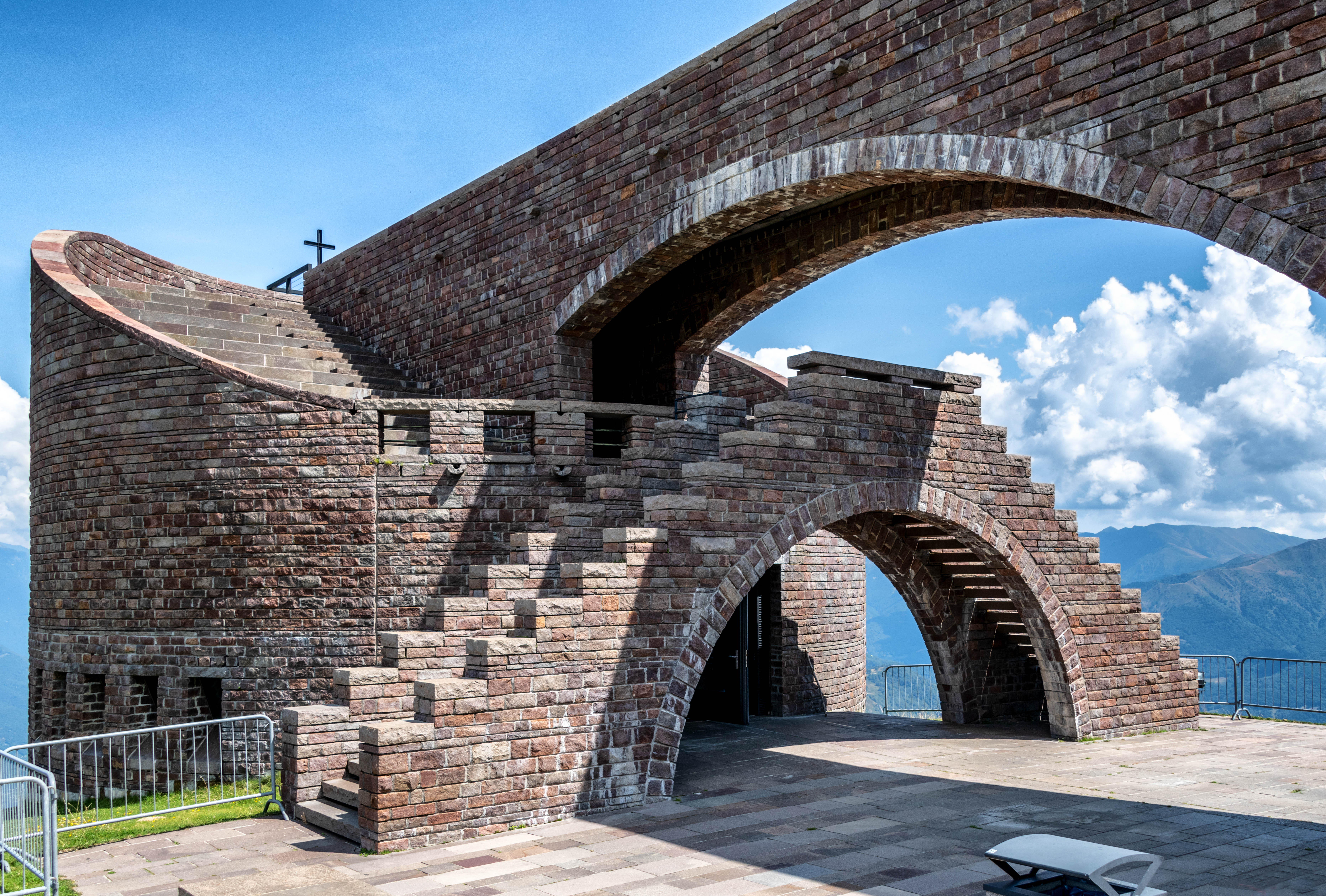 Church Santa Maria degli Angeli on Monte Tamaro, Ticino Switzerland